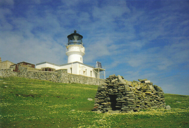 St. Flannan's Cell and Flannan Isles Lighthouse Here is the source of one of the world's great mysteries for at the turn of the century three lightkeepers disappeared without trace.